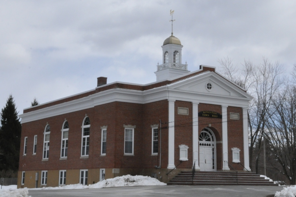 Town Hall, Kingston, New Hampshire.